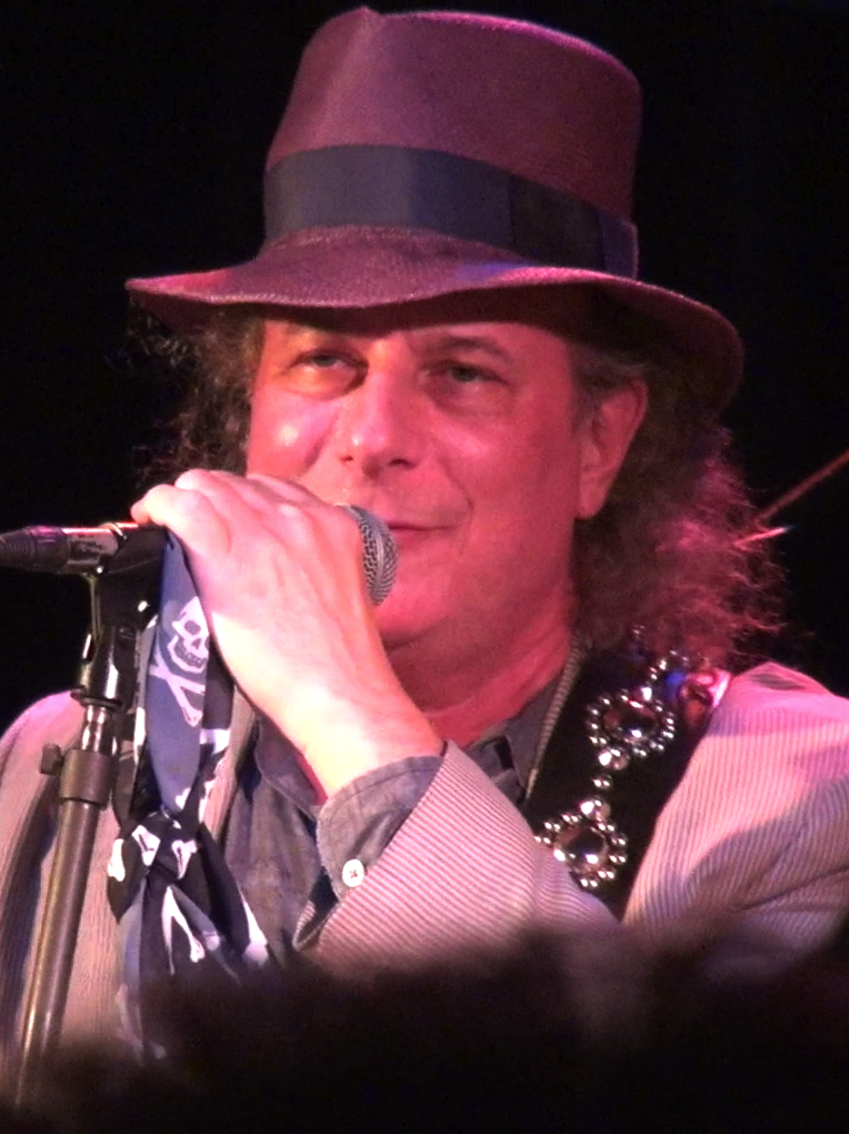 Gary Lucas performing at the Bowery Poetry Club as part of the Captain Beefheard tribute Best Batch Yet.